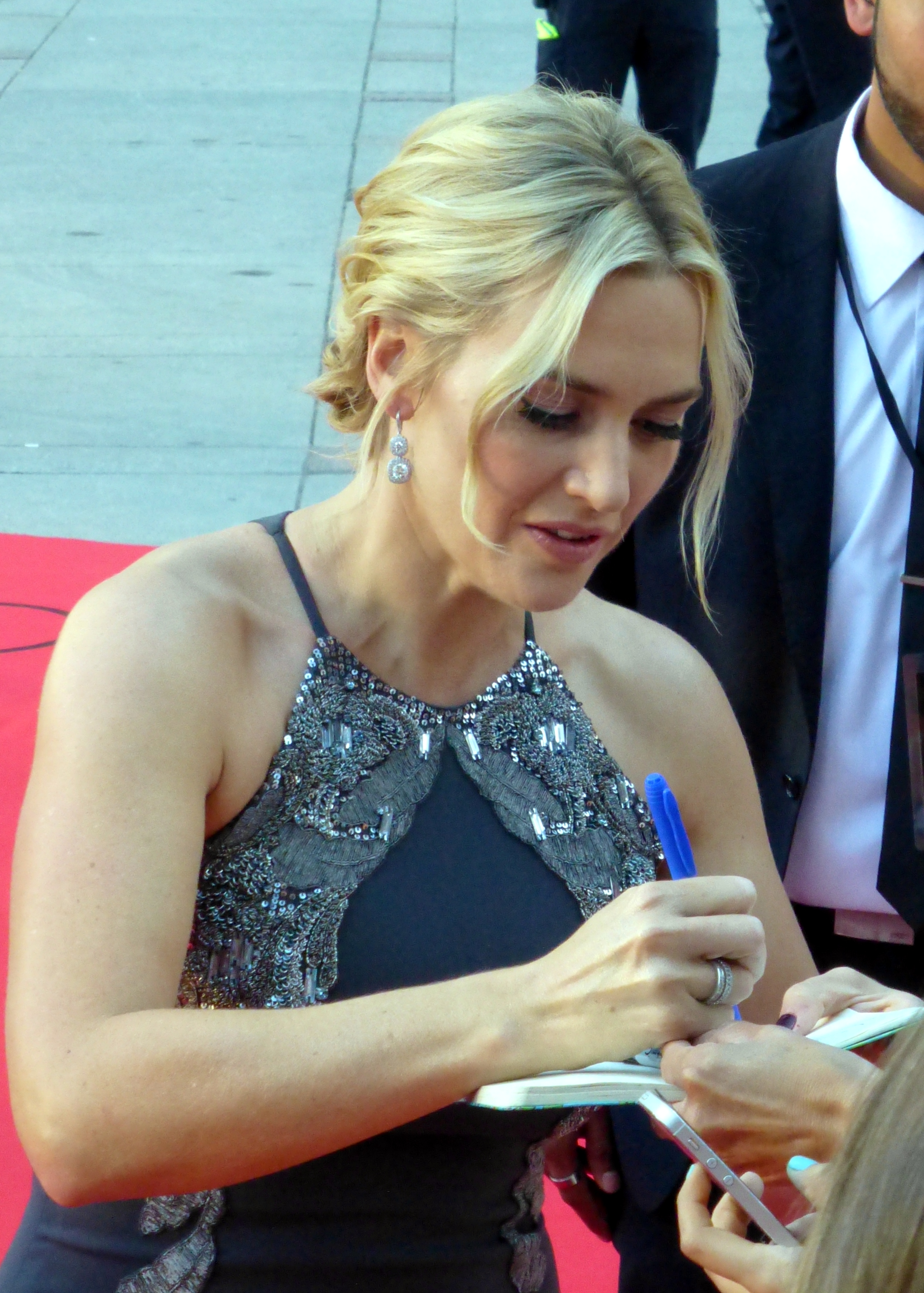 Kate Winslet TIFF 2015